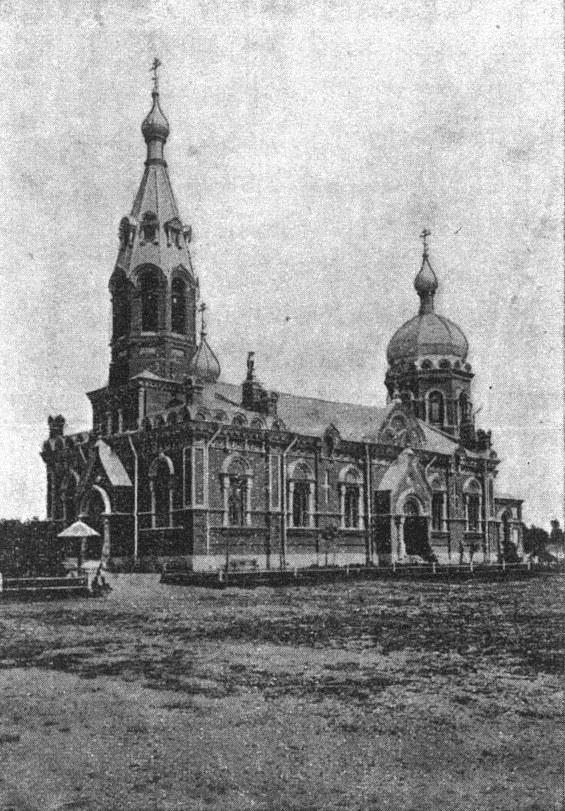 Holy Myrrhbearers Cathedral in Baku